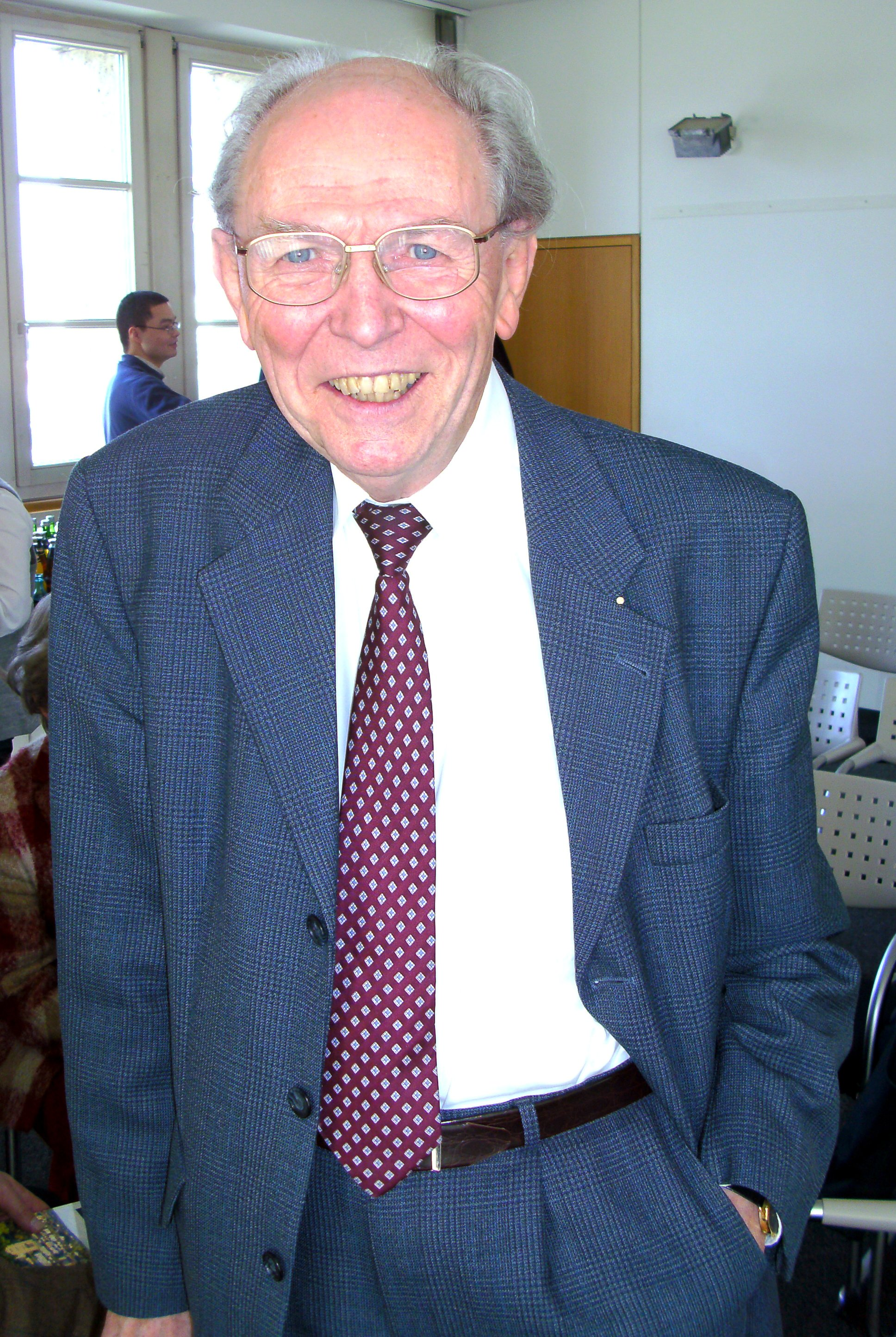 Gerhard Heimerl, a German transportation engineer, in Stuttgart in March 2011.